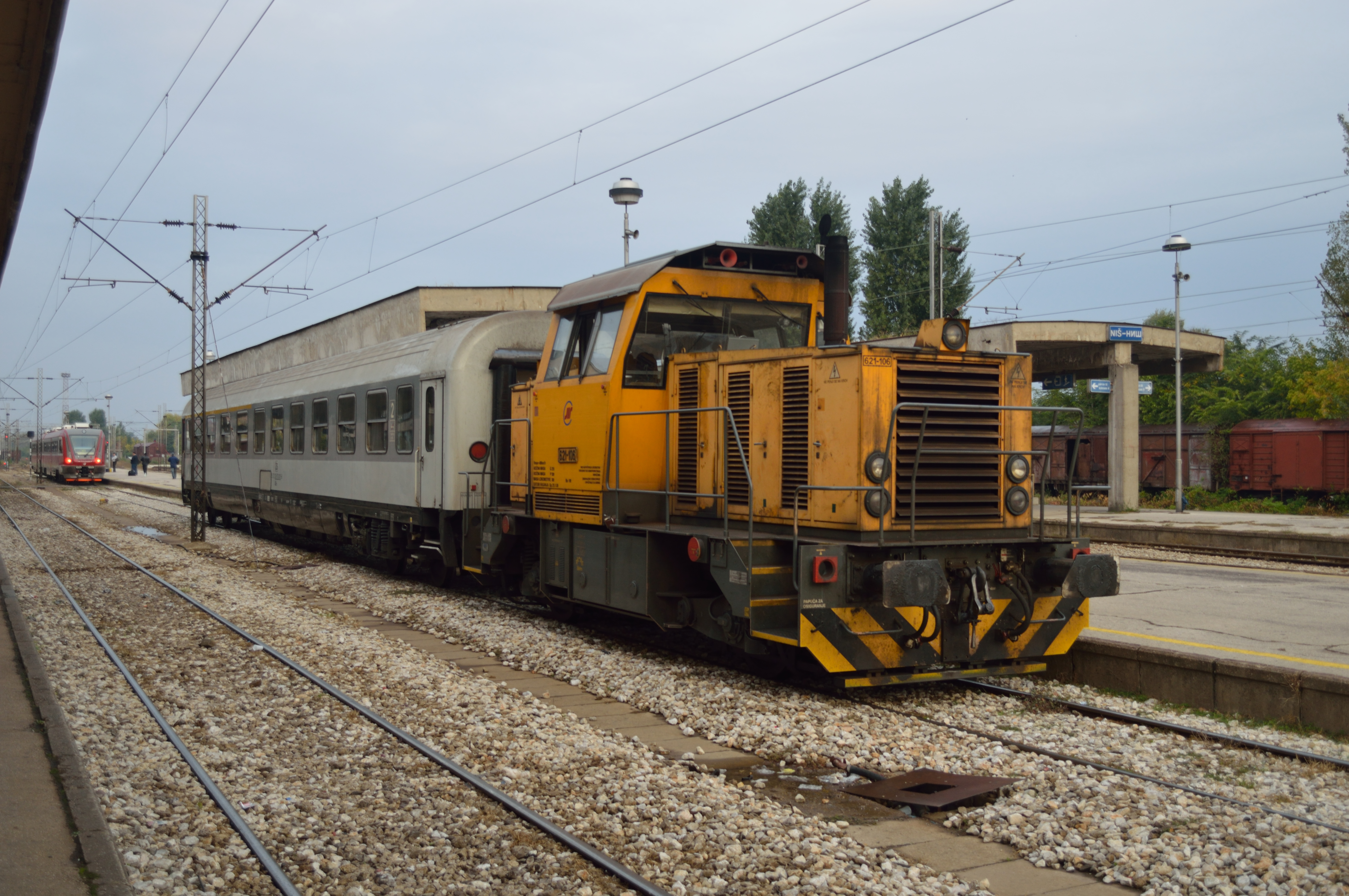 Balkans Rail Trip, Autumn 2013 - Day Six Czech built shunting loco no. 621.106 with one coach which has been drafted into replace a DMU on a stopping service the Dimitrovgrad line. Train was 5903, 07:25 Niš to Dimitrovgrad on 28 September 2013.